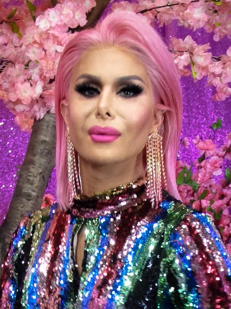 Trinity the Tuck Taylor at RuPaul's Dragcon 2019